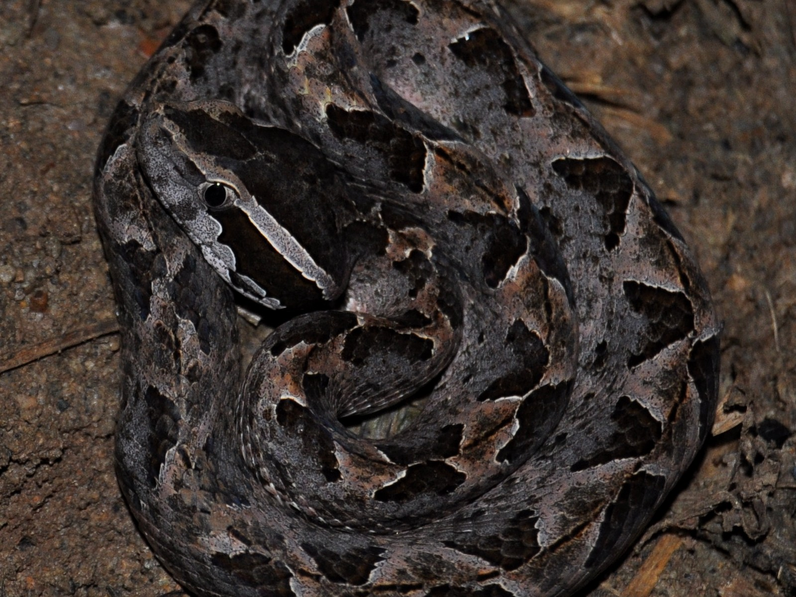 Young Malayan Pit Viper (Calloselasma rhodostoma); from Karawang, West Java. Awaiting its prey.